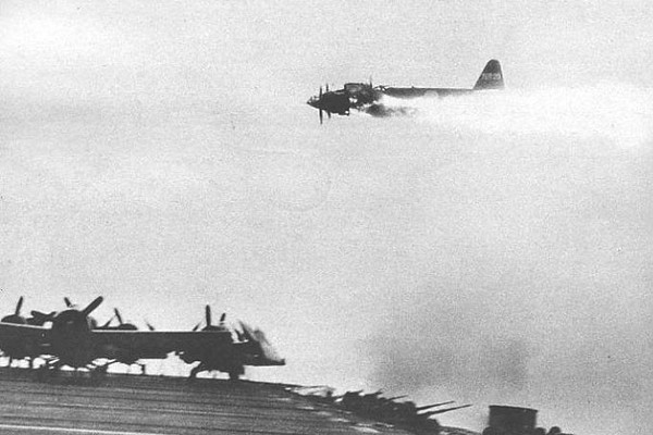 Yokosuka P1Y "Frances" shot down next to USS Ommaney Bay (CVE-79) by 0945 on December 15, 1944. (USS Natoma Bay (CVE-62) Logbook Project)